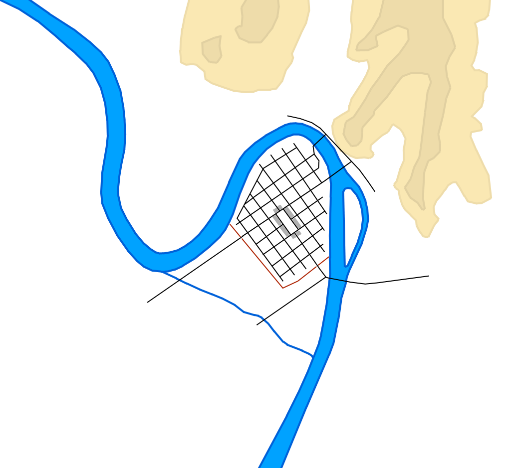 Ancient Verona